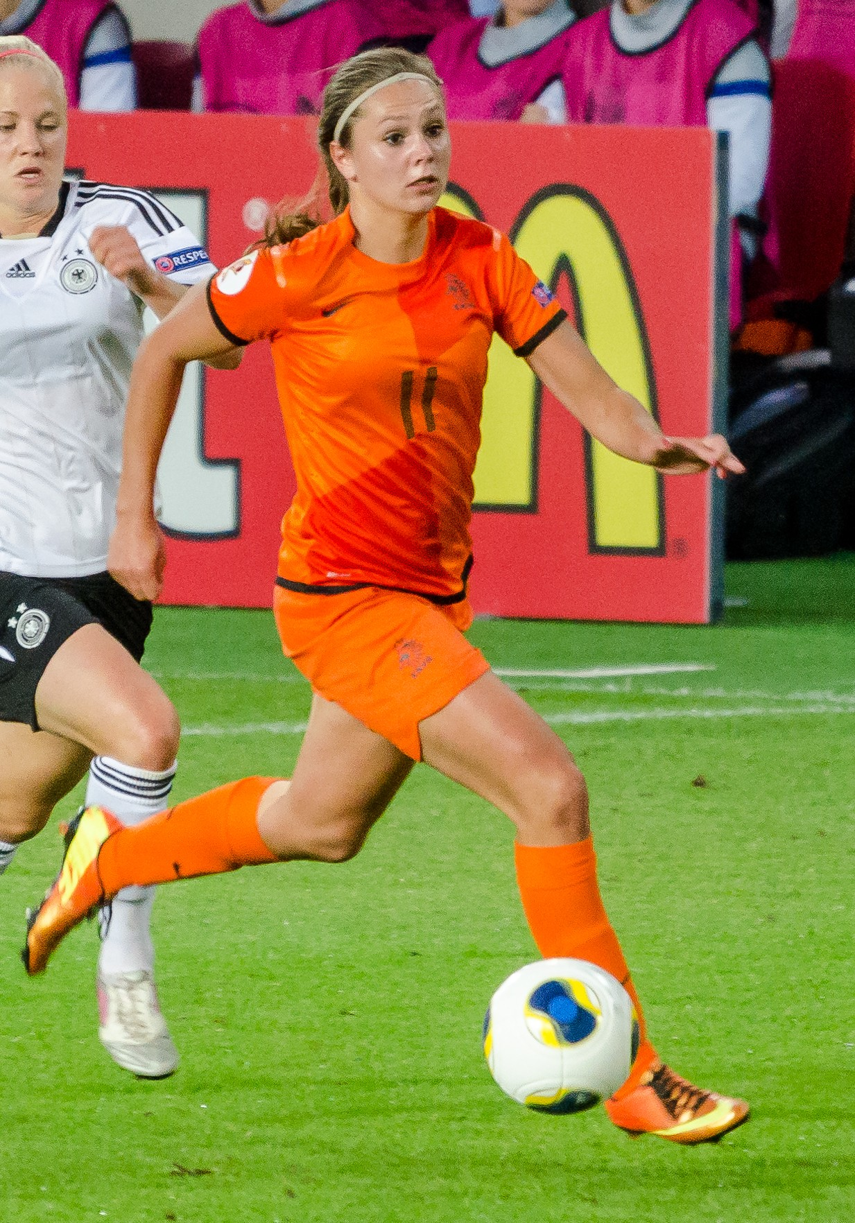 Dutch winger Lieke Martens playing the team's first game of the UEFA Women's Euro 2013, 0-0 against Germany in Växjö.